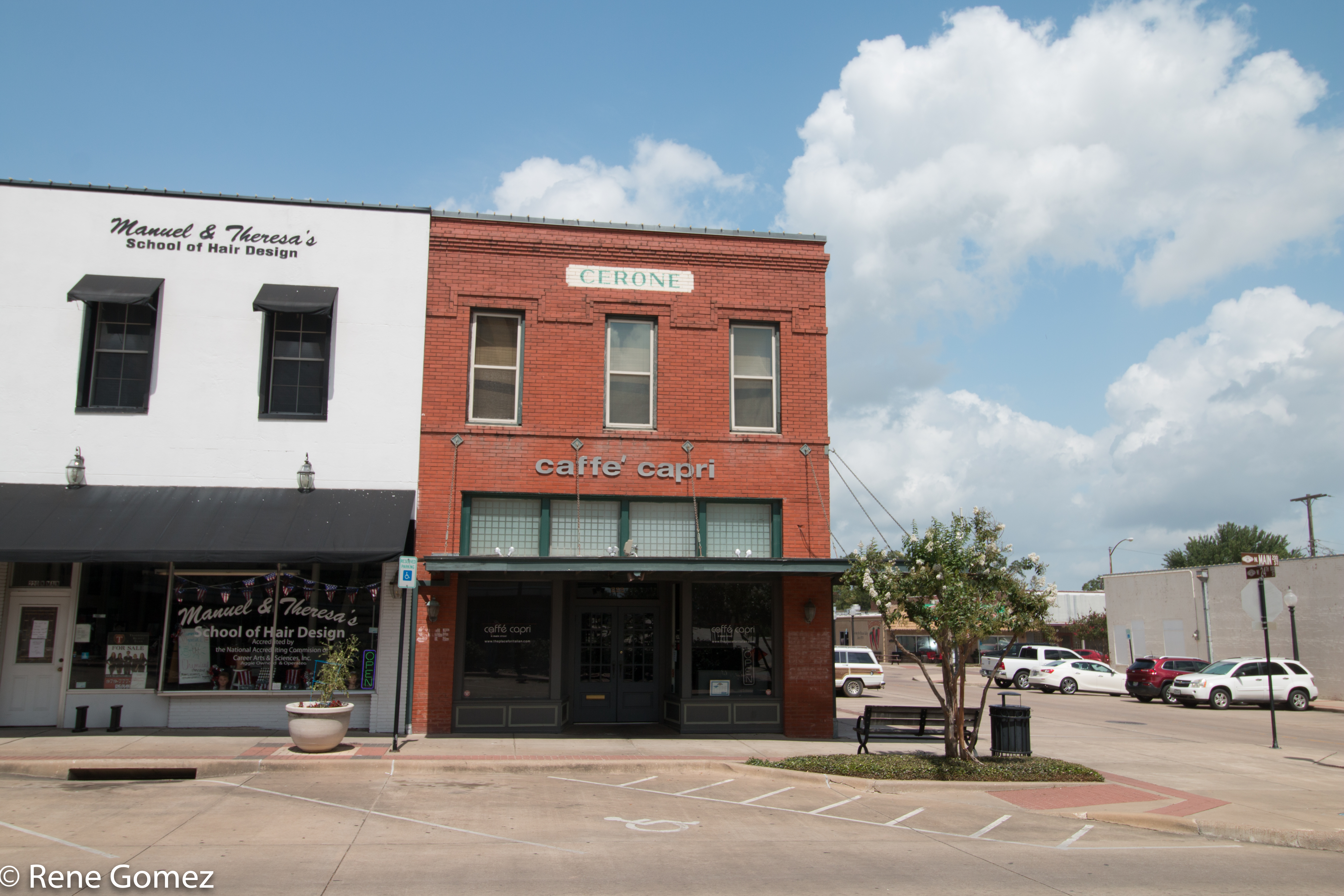 Humpty Dumpty Store in Bryan, Texas